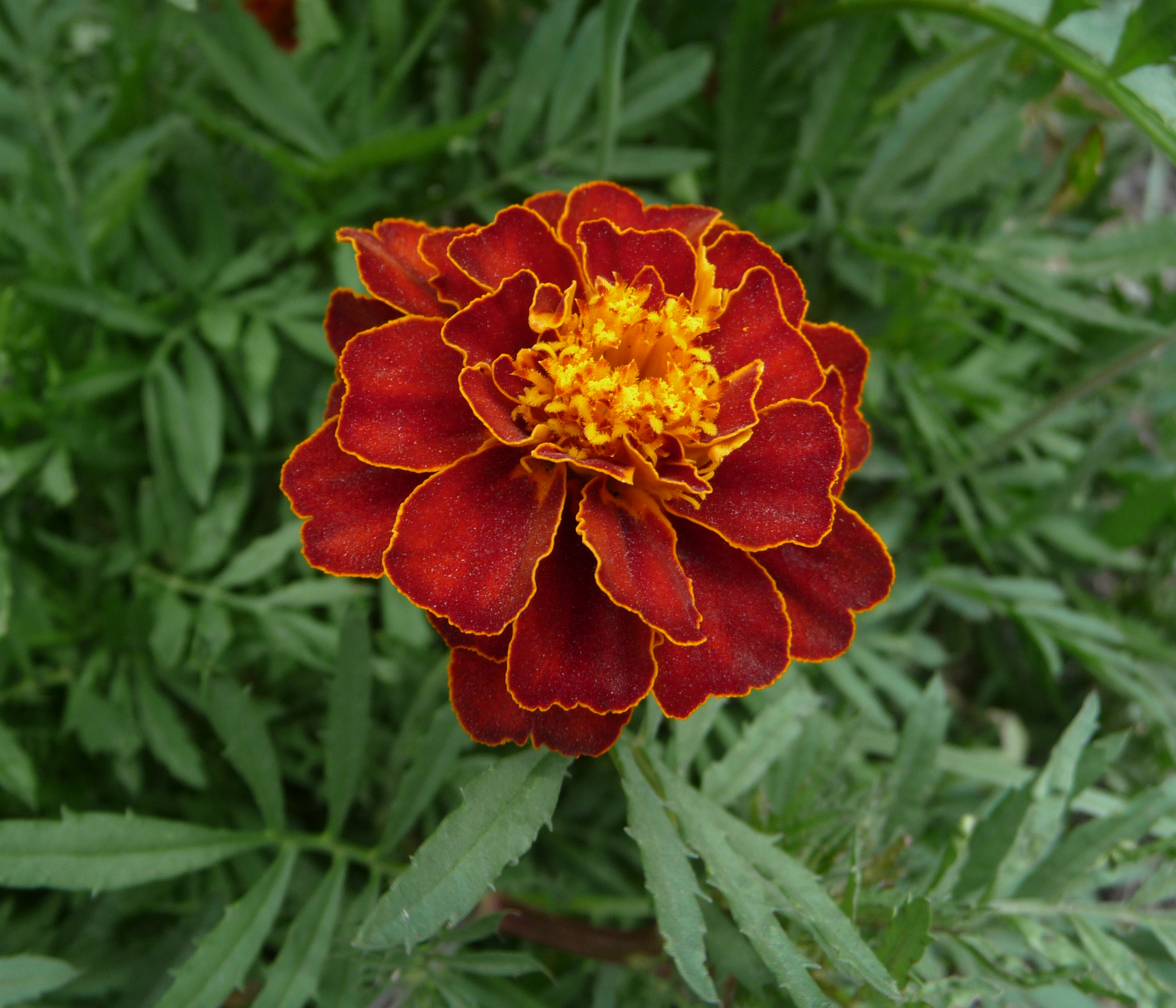 French marigold Tagetes patula, possibly a hybrid cultivar. Ukraine.